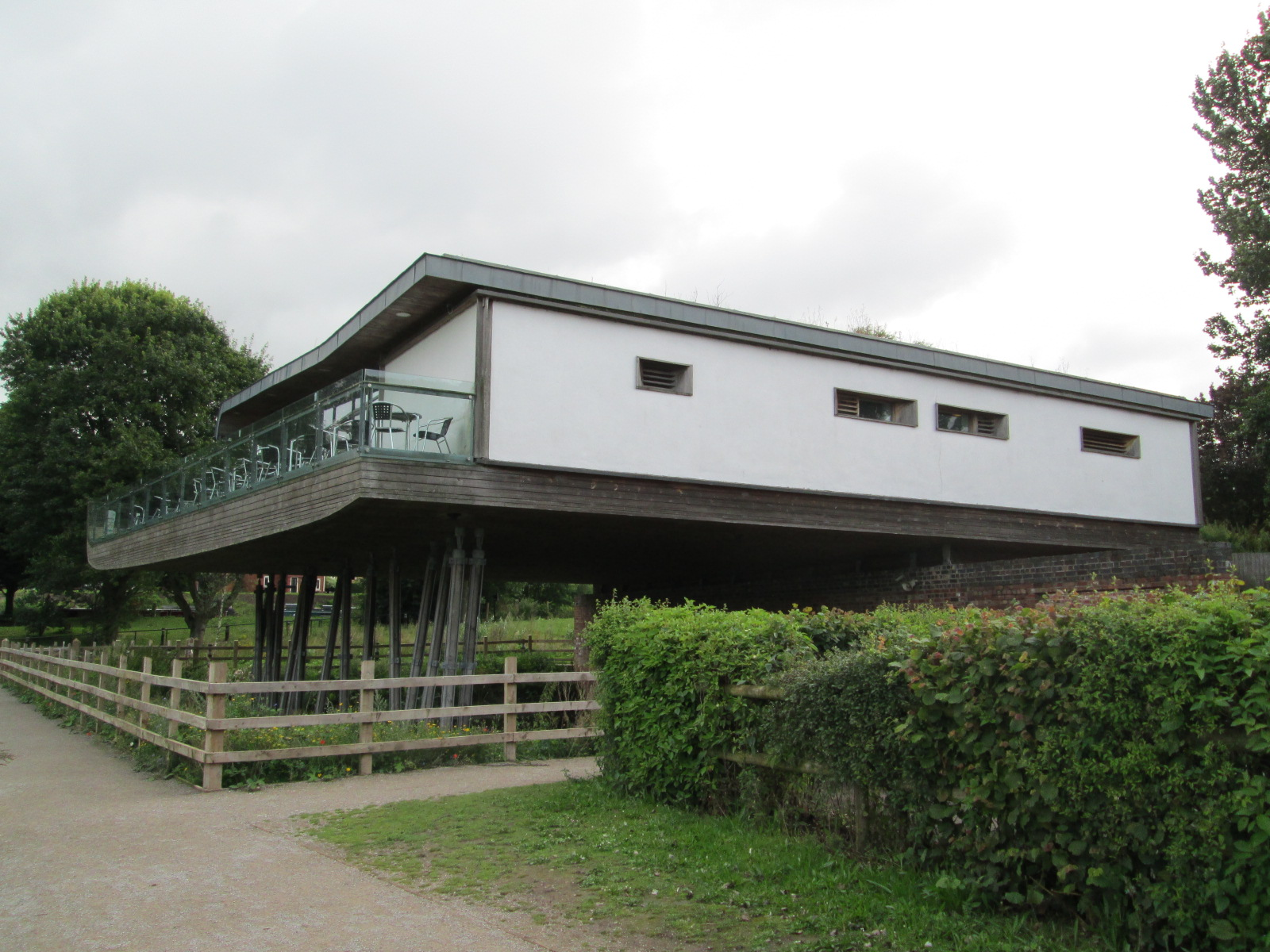 Visitor centre of Westport Lake, in Stoke-on-Trent, Staffordshire.